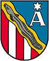 Coat of arms of Altheim, Upper Austria